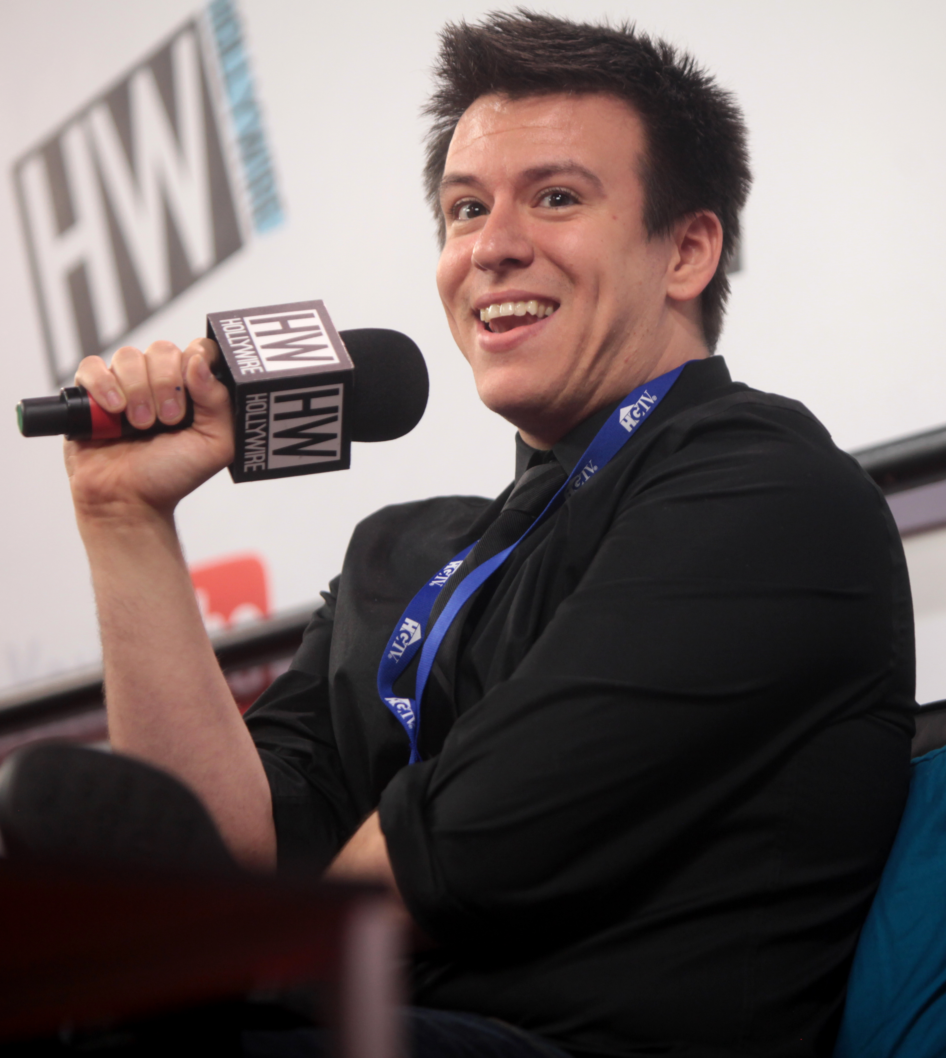 Philip DeFranco speaking at the 2014 VidCon at the Anaheim Convention Center in Anaheim, California.